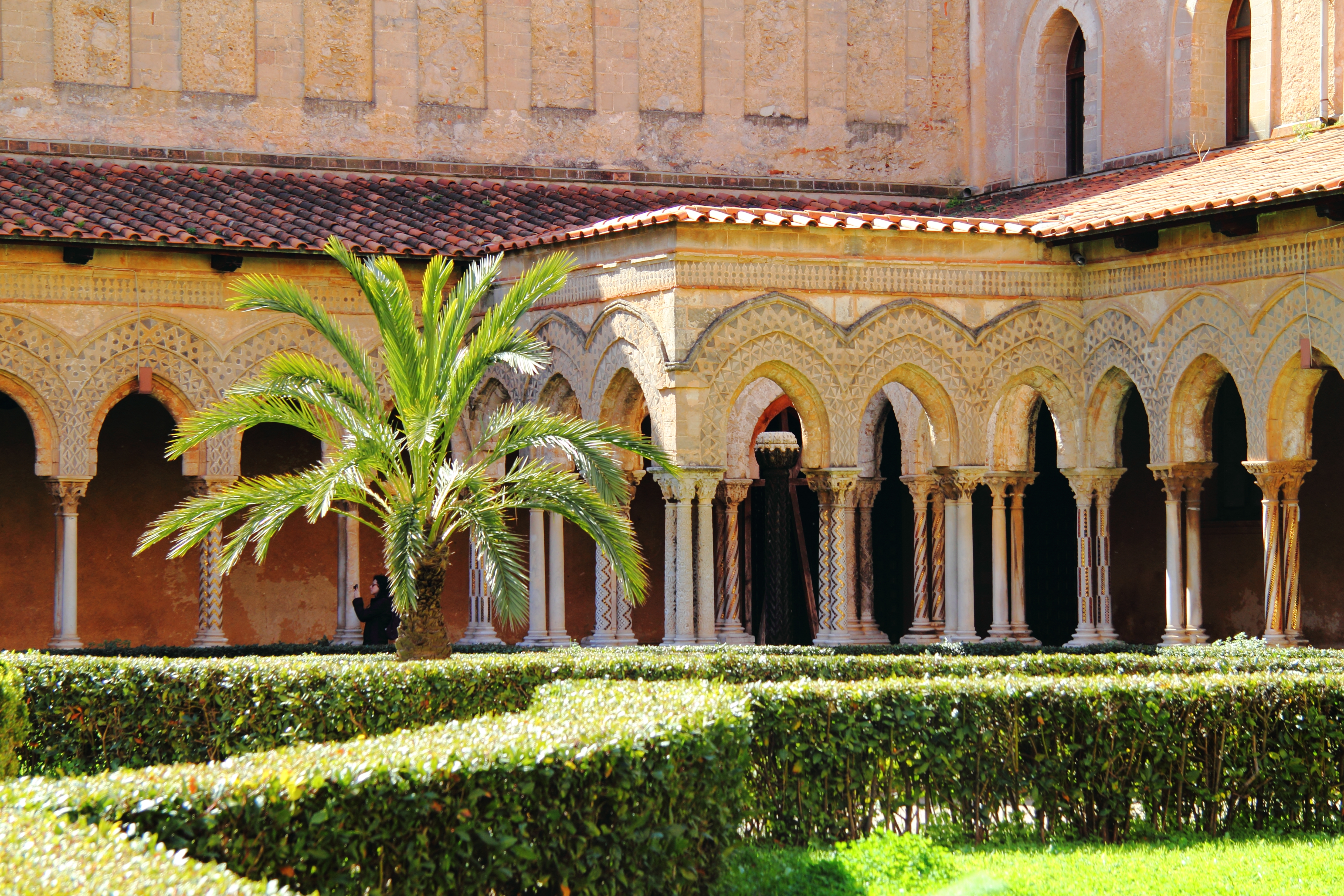 Monreale, Sicily: cloister of the cathedral with Arabic fountain